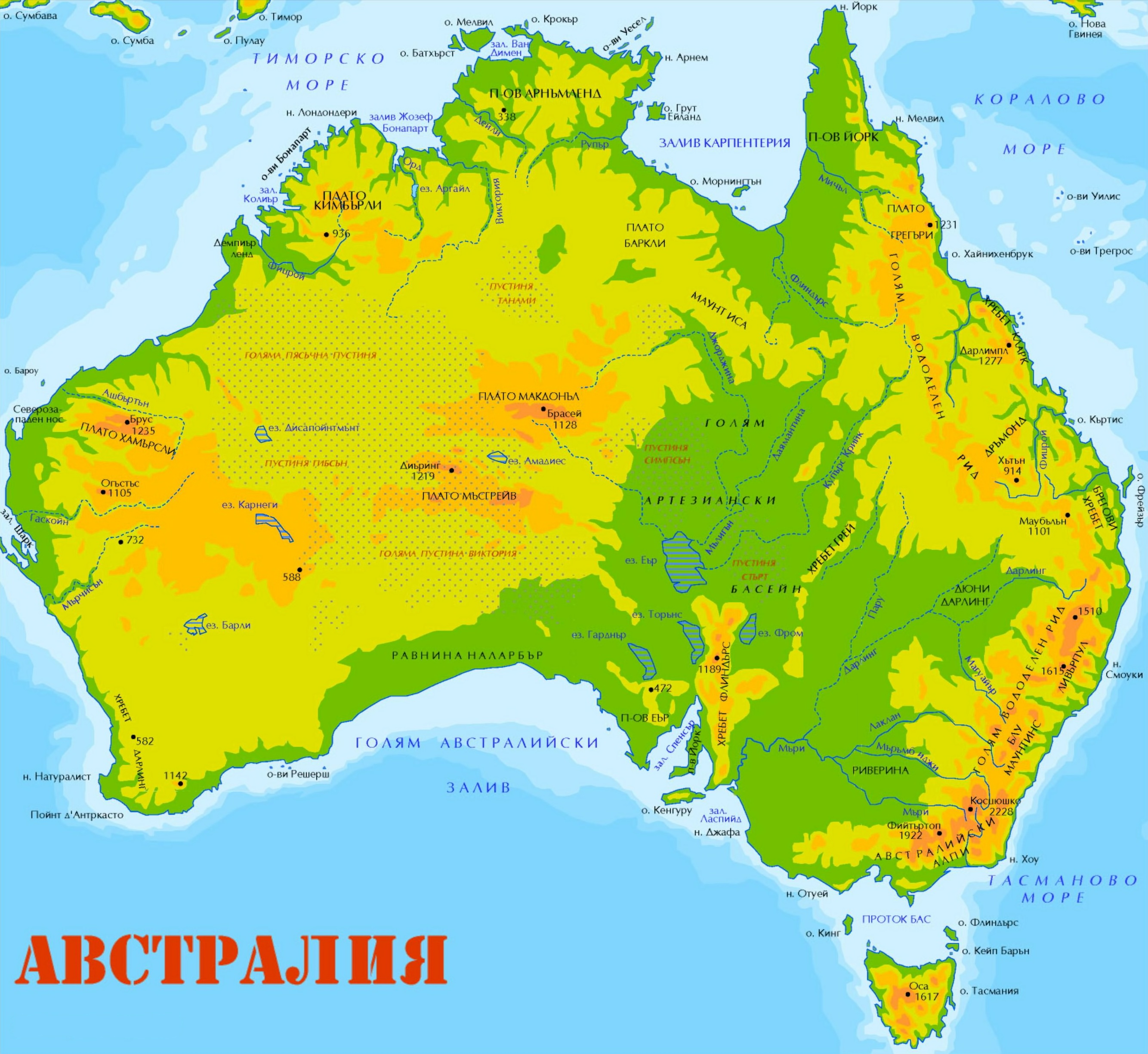 Map of Australia (in Bulgarian)